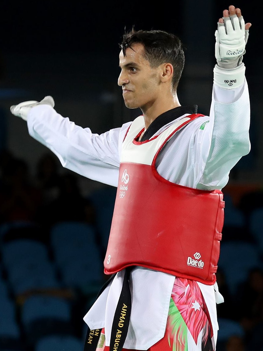 Ahmad Abughaush by Salem Khames the 2016 Summer Olympics in Rio de Janeiro, in the men's 68 kg